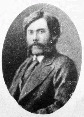 Murata Shinpachi (村田新八) (10 December 1836 - 24 September 1877), Samurai and politician during the Bakumatsu and Meiji period from Satsuma, Japan